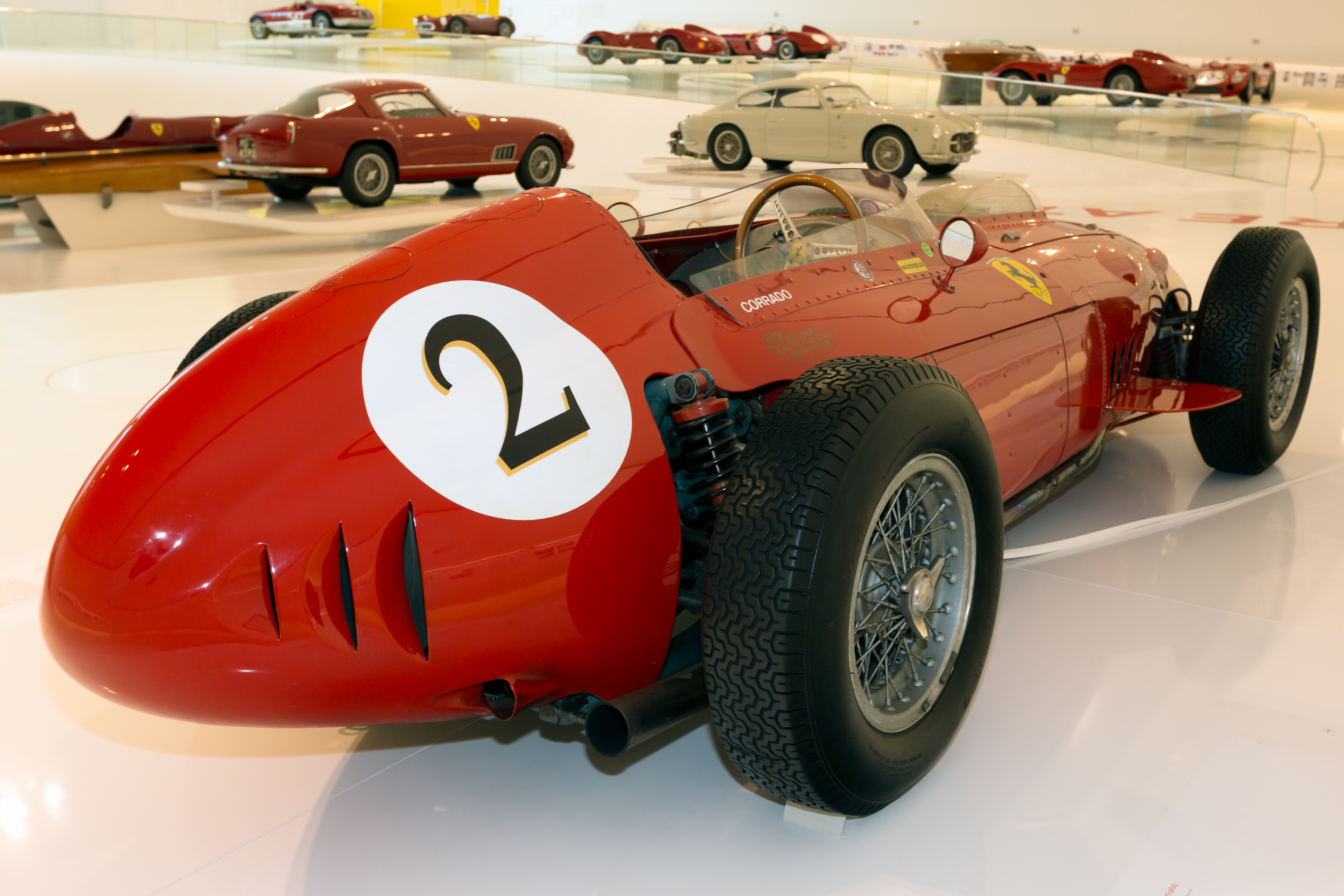 1957 Ferrari 246 F1 "Dino"